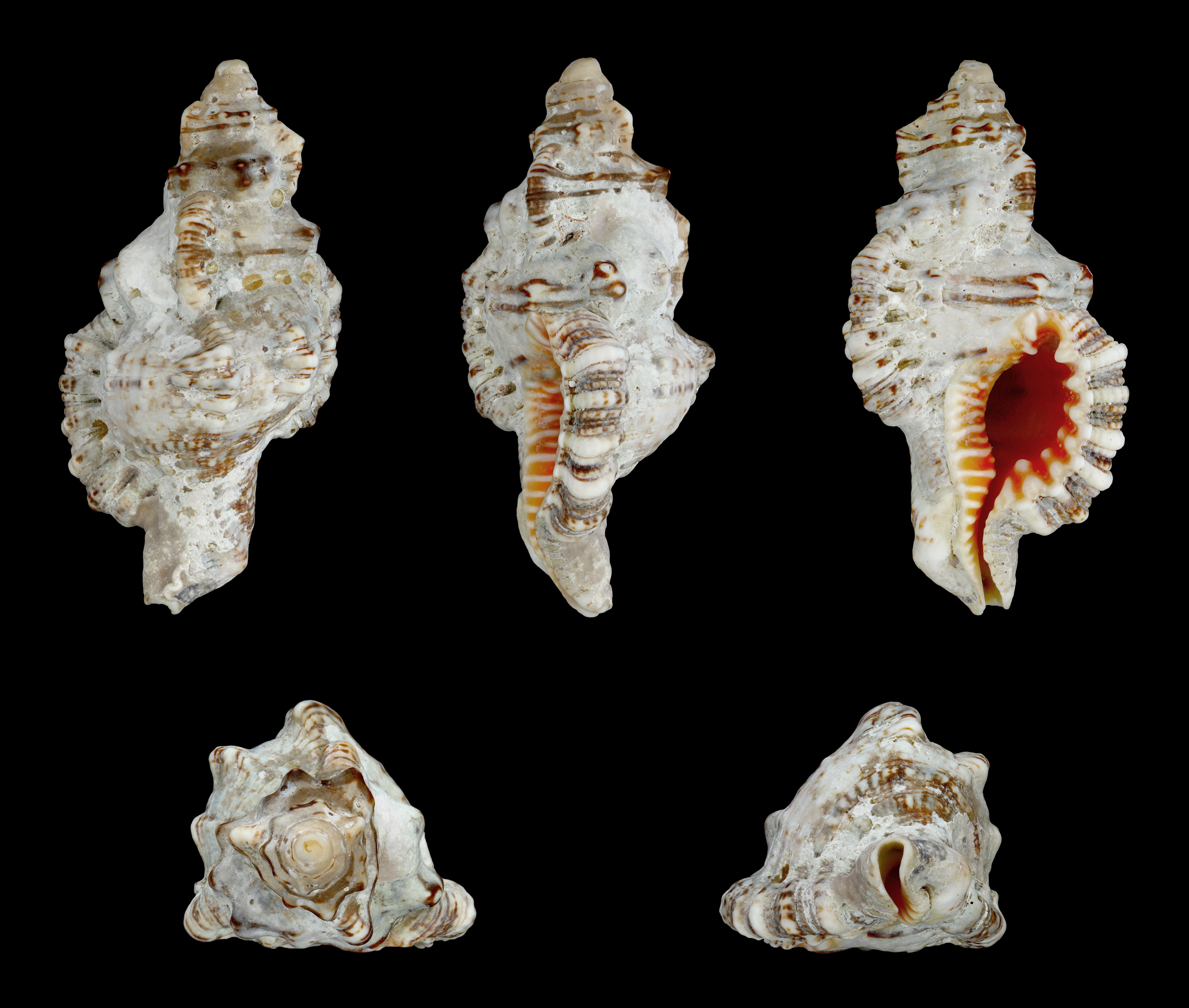 Nicobar Hairy Triton; Length 5.8 cm; Originating from Mombasa, Kenya; Shell of own collection, therefore not geocoded. Dorsal, lateral (right side), ventral, back, and front view.